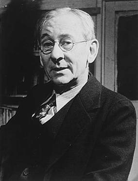 Lewis Hine (1874-1940) self-portrait